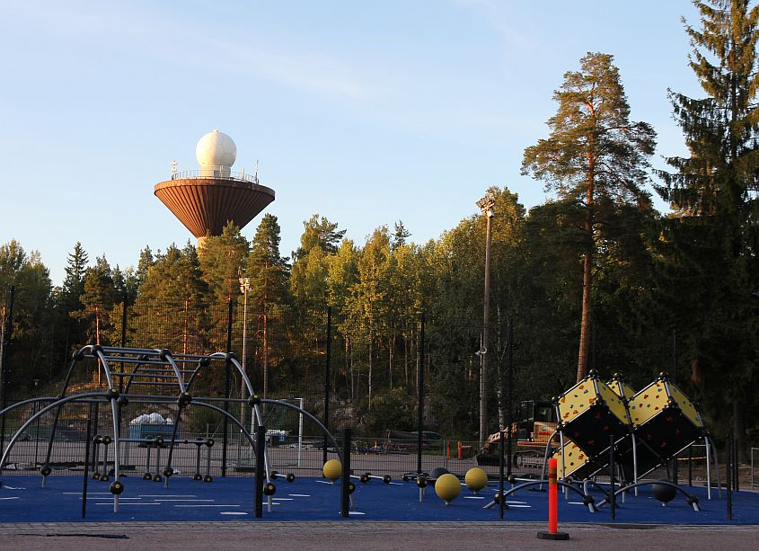 The water tower of Kaivoksela district of Vantaa, Finland. At the top is a dual polarization weather radar of the Finnish Meteorological Institute made by Vaisala Corporation. Note: Remember to keep a reference to the graph if you are using the image.